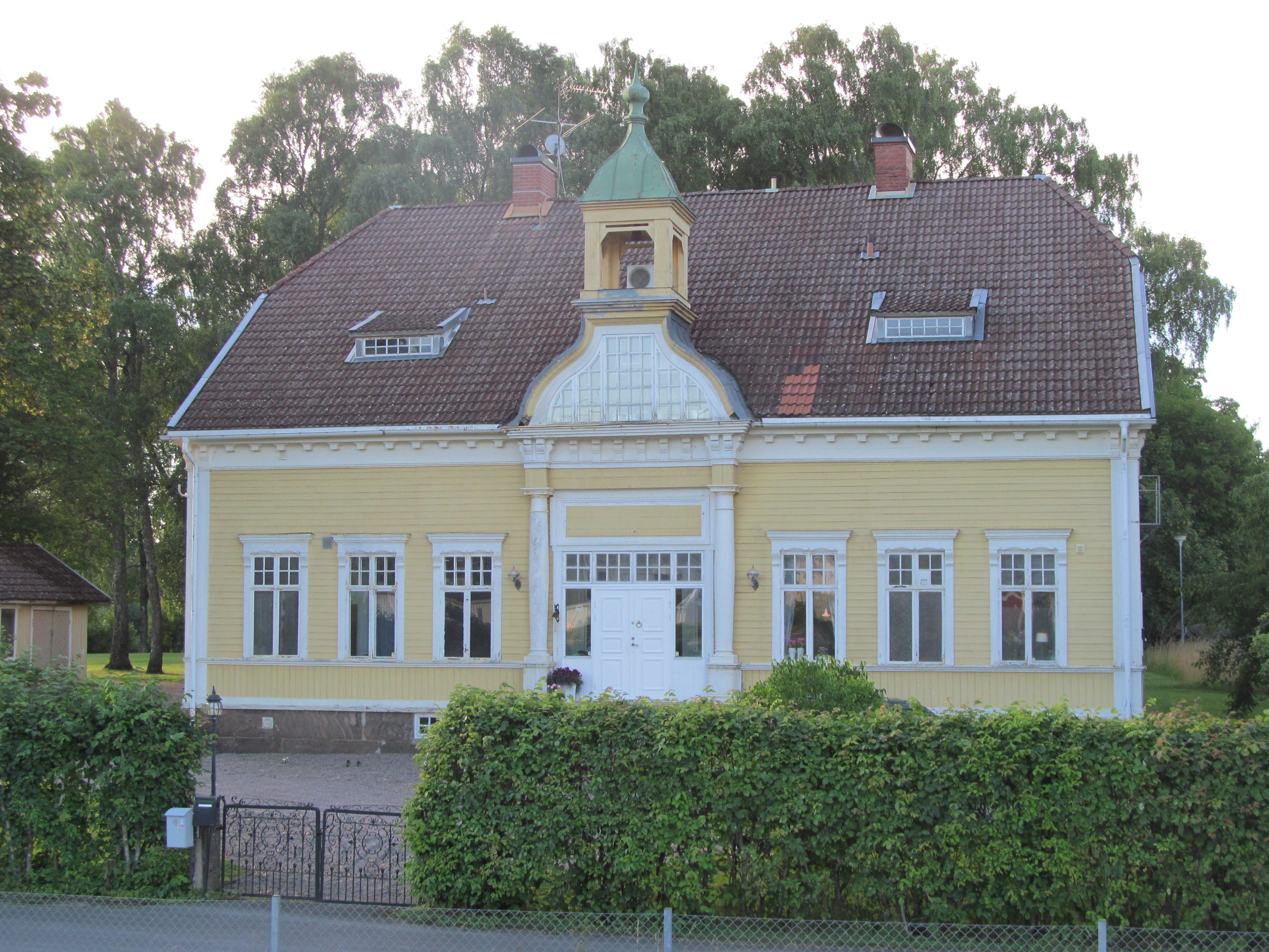 Building constructed as a courthouse in the year 1900 in Floby, Sweden. In 1971 operations in Floby were transferred to the district court in Falköping. Served a while as a youth center but is now a private residence.